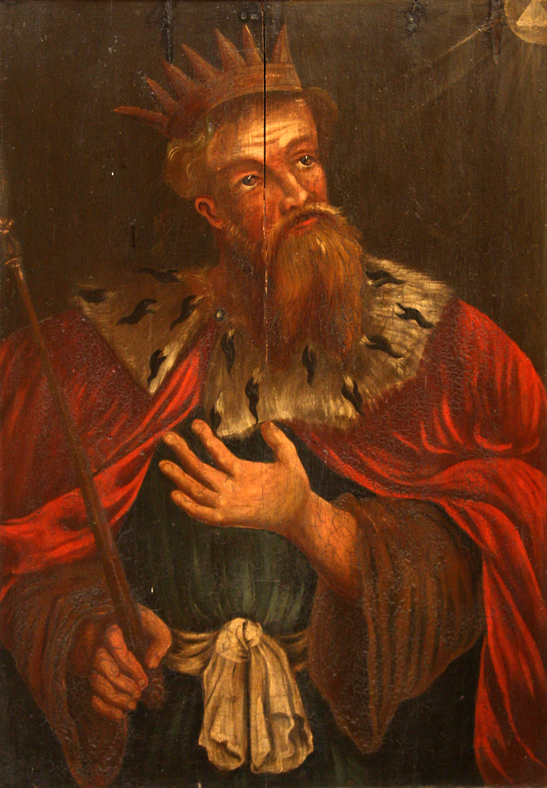 King Hezekiah on a 17th century painting by unknown artist in the choir of Sankta Maria kyrka in Åhus, Sweden.